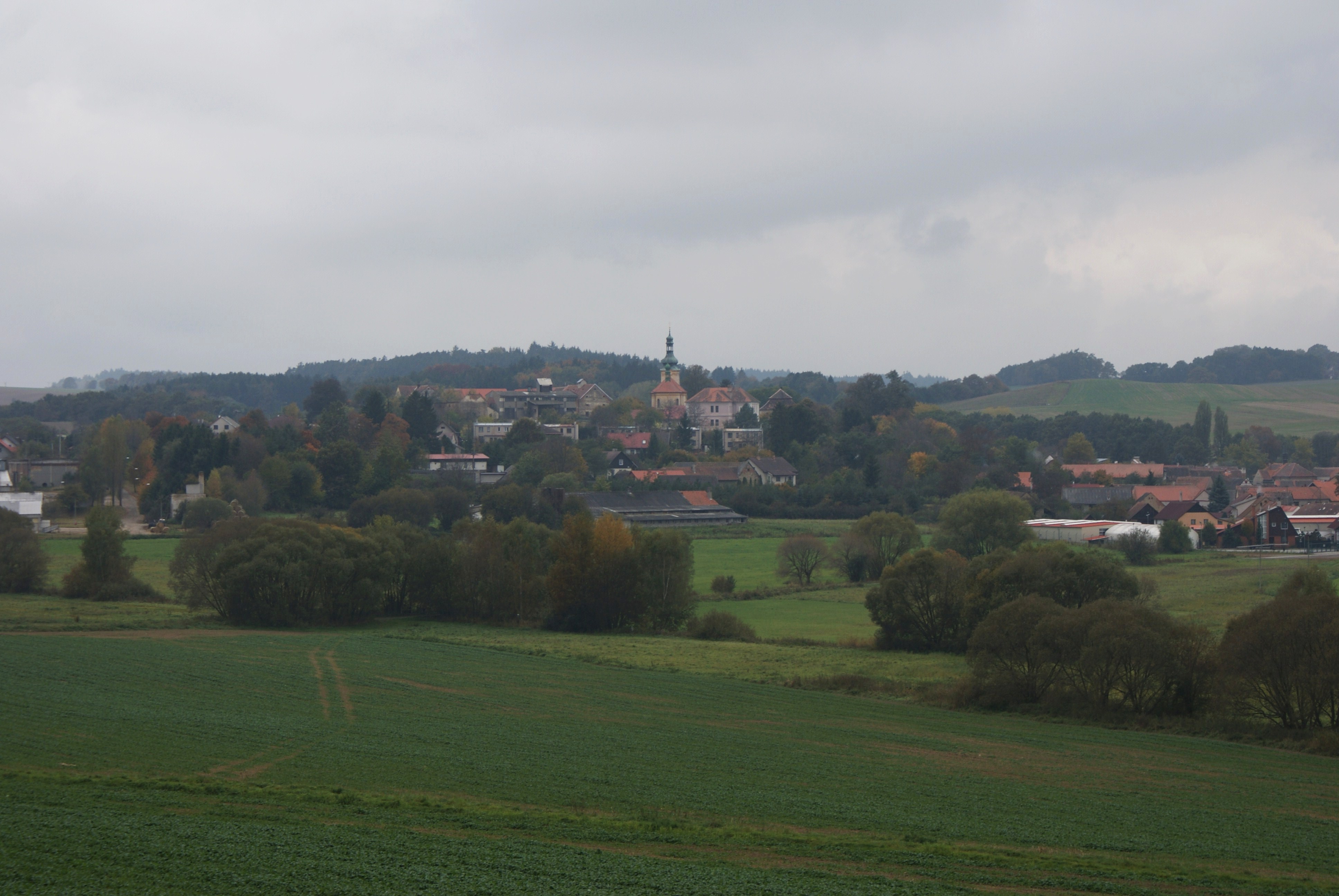 This photograph was taken within the scope of the Czech 'Photo Workshops' grant.